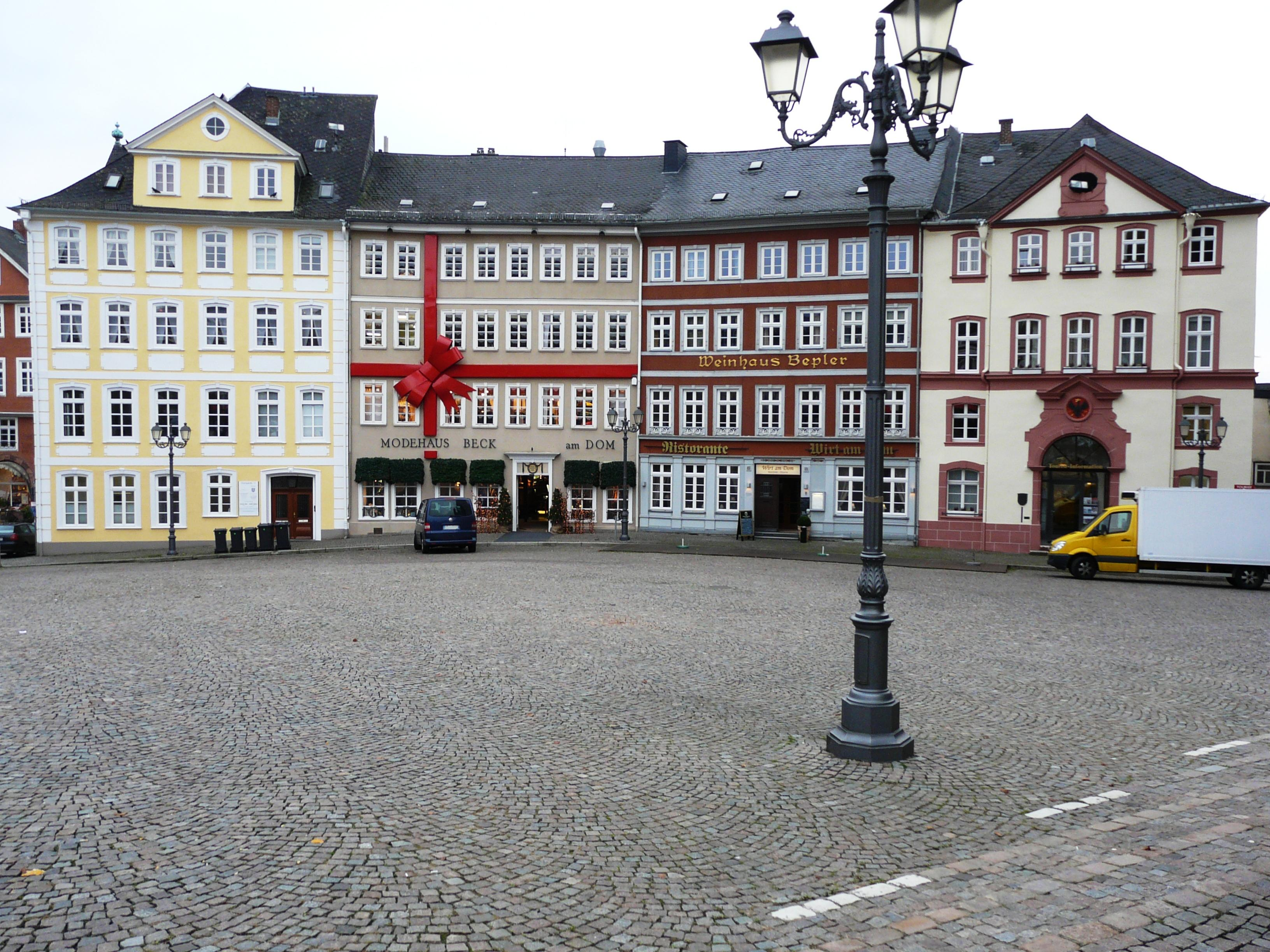 Buildings of rococo and neoclassical architecture at Cathedral Square of Wetzlar (district Lahn-Dill)